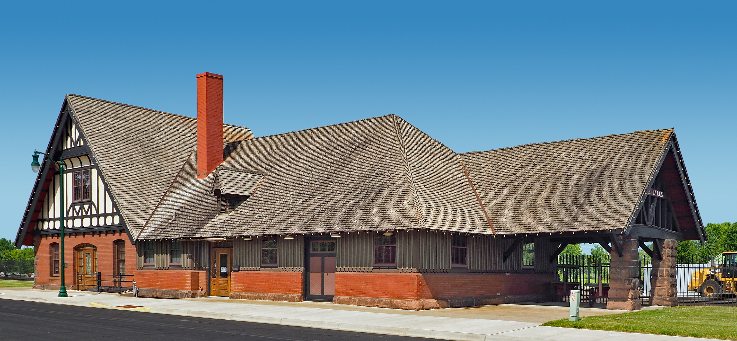 Little Falls Depot, 200 1st St NW, Little Falls, Minnesota, USA. Viewed from the southwest.